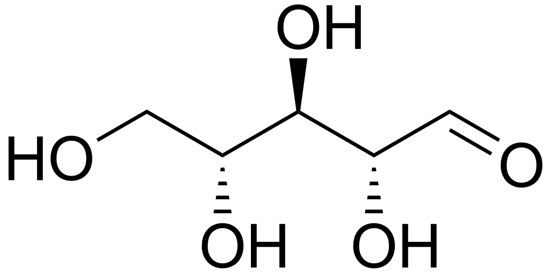 Chemical structure of D-ribose